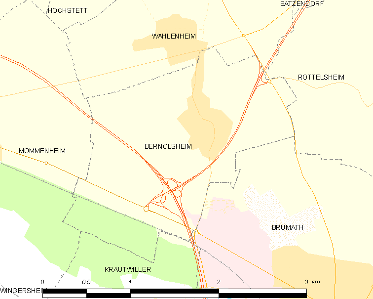 Map of French municipality